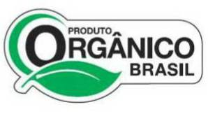 Organic farming seal - Brazil